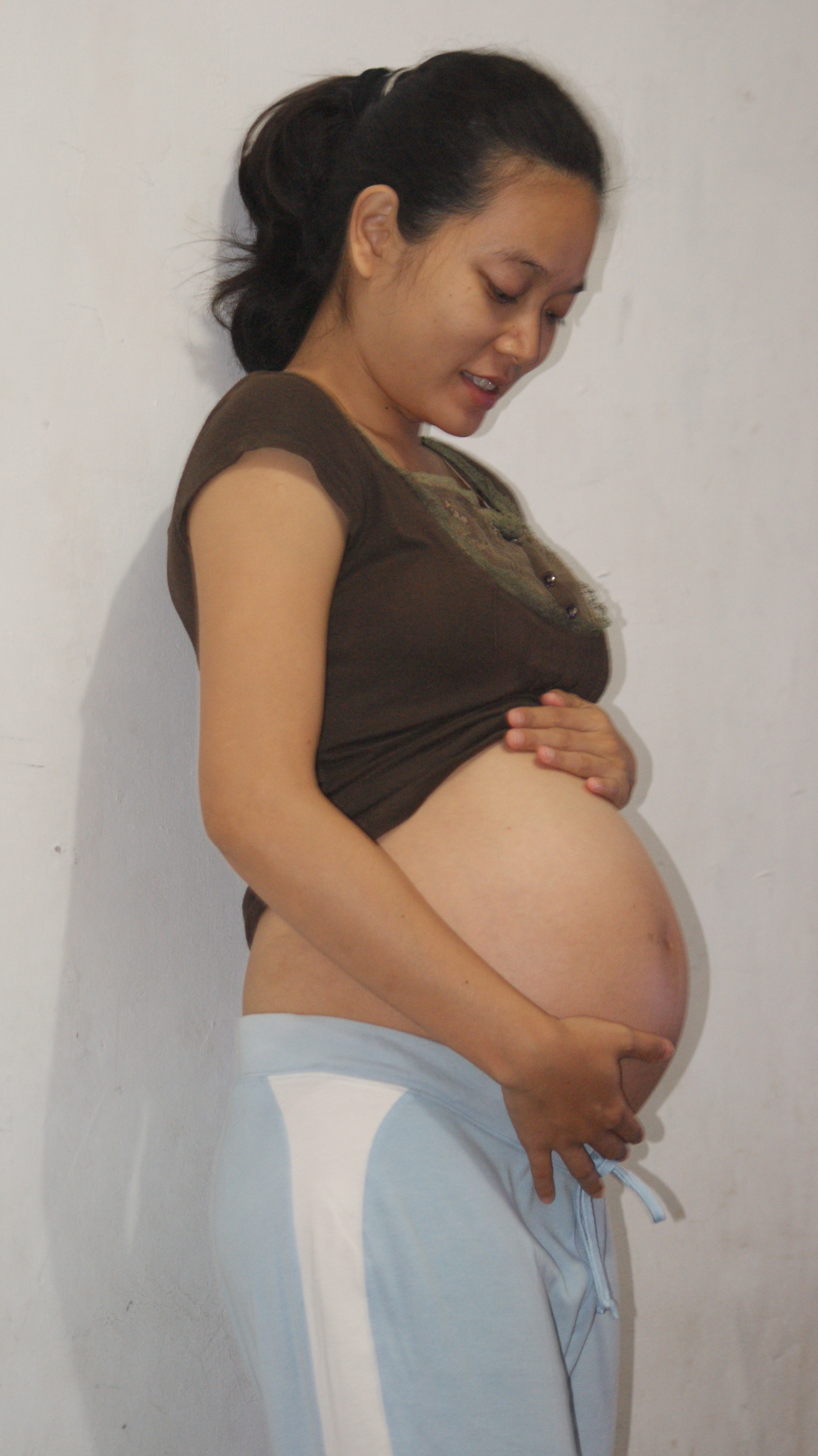 7 month